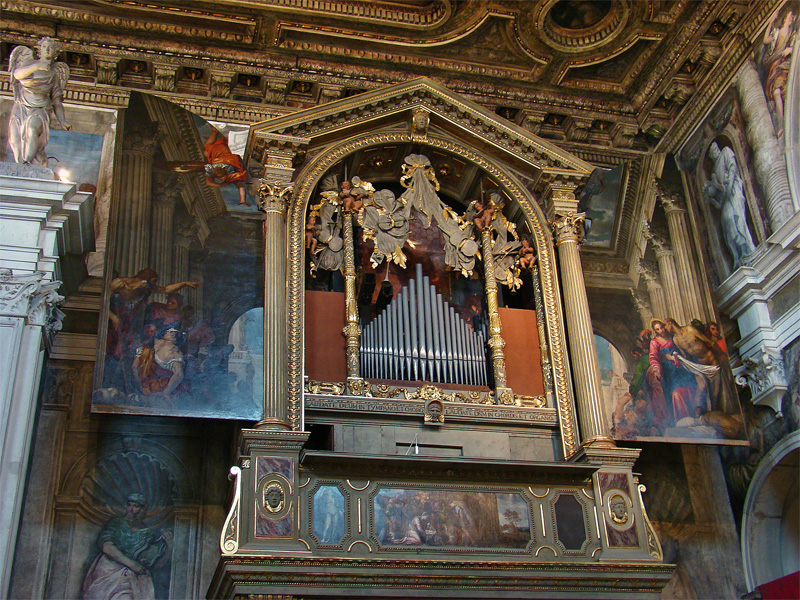 Church of San Sebastiano, Venice, Veneto, Italy. Organ decorated by Paolo Veronese.